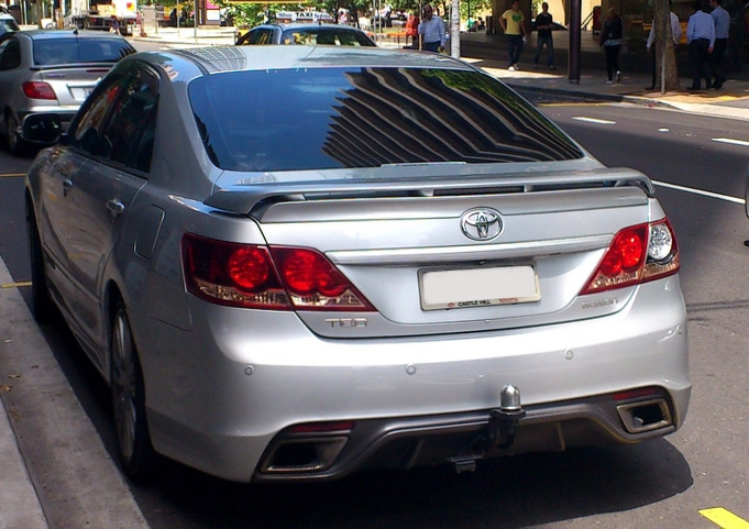 TRD Aurion